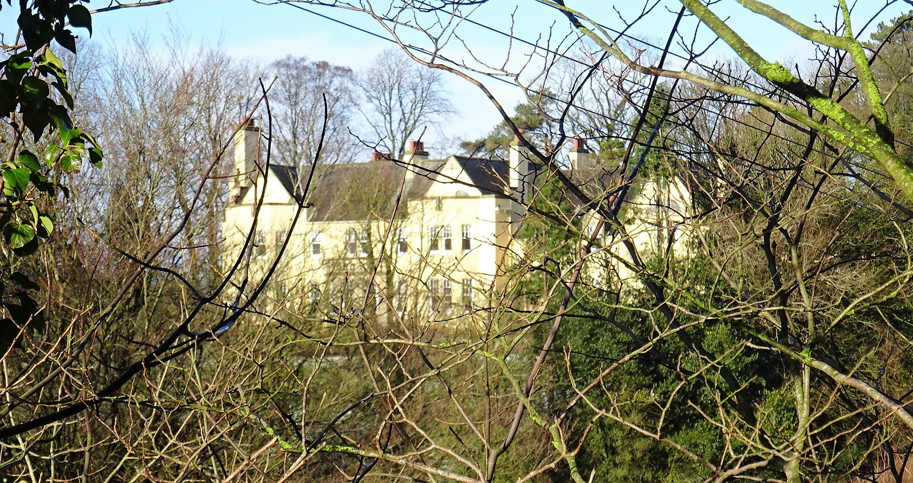 The new Chapeltoun House, East Ayrshire, Scotland - viewed from the Chapeltoun road to the west. This house replaced a much older house built on the site of a medieval chapel.